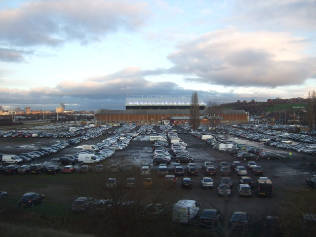 Elland Road car park (match day)